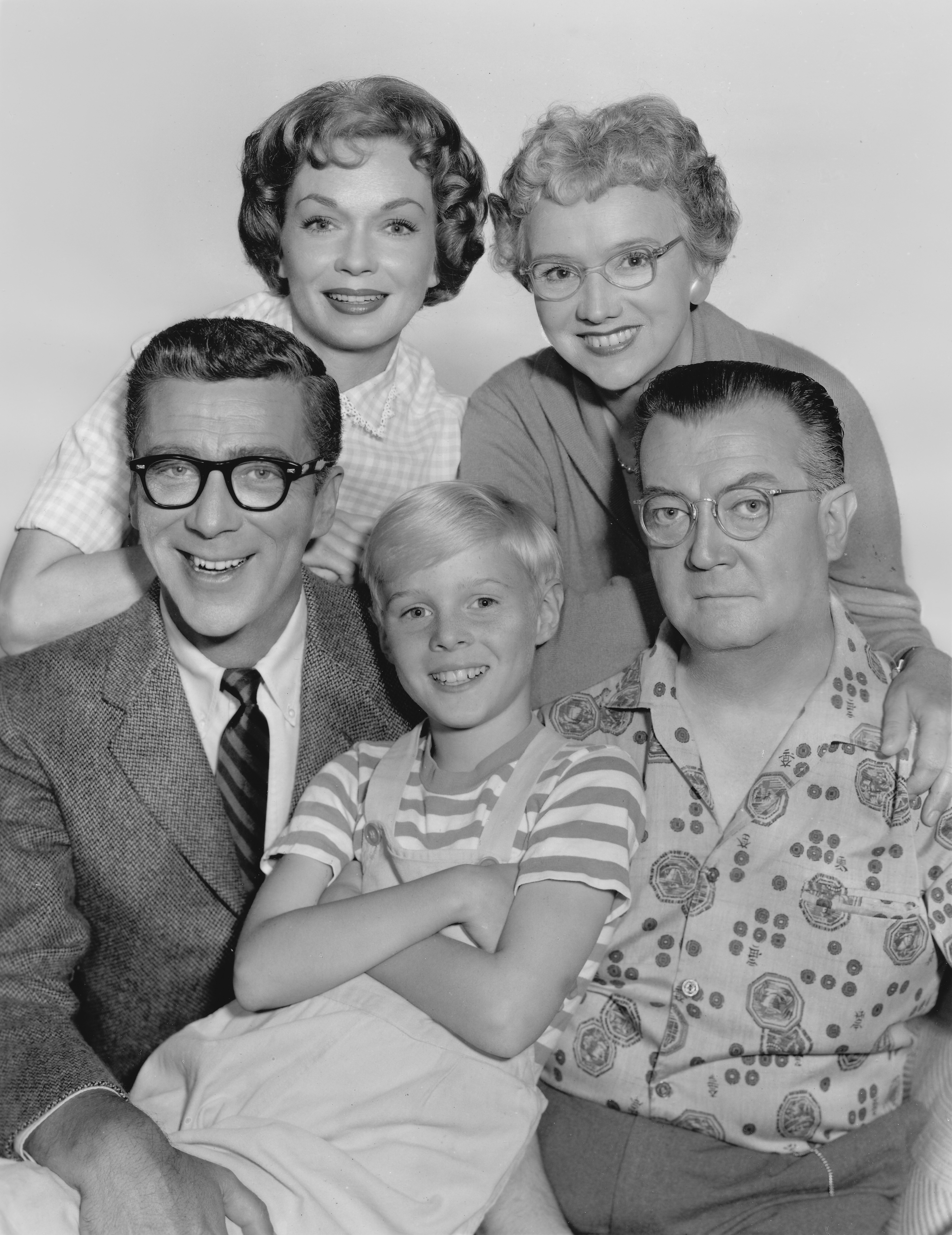 Publicity photo of the cast of the CBS comedy television series Dennis the Menace, (Clockwise from center) Jay North, Herbert Anderson, Gloria Henry, Sylvia Field and Joseph Kearns.